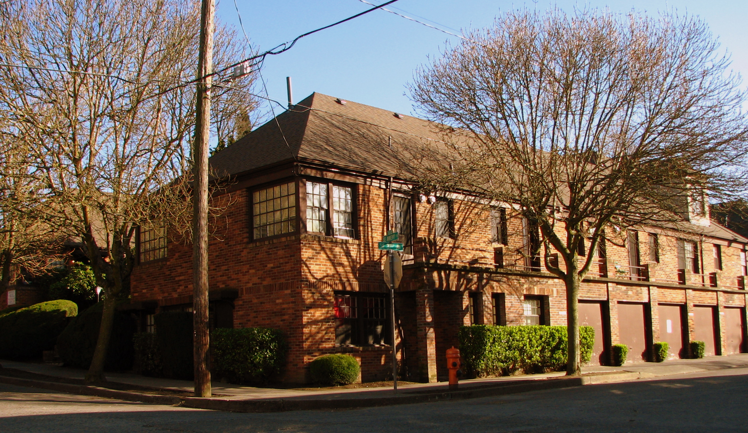 The historic Laurelhurst Manor Apartments (built 1941), located at 3100 Southeast Ankeny Street in Portland, Oregon, United States, is listed on the US National Register of Historic Places.